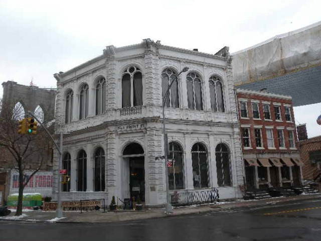 Looking north across Old Fulton and Front Street at new home of Grimaldis on a cloudy afternoon.